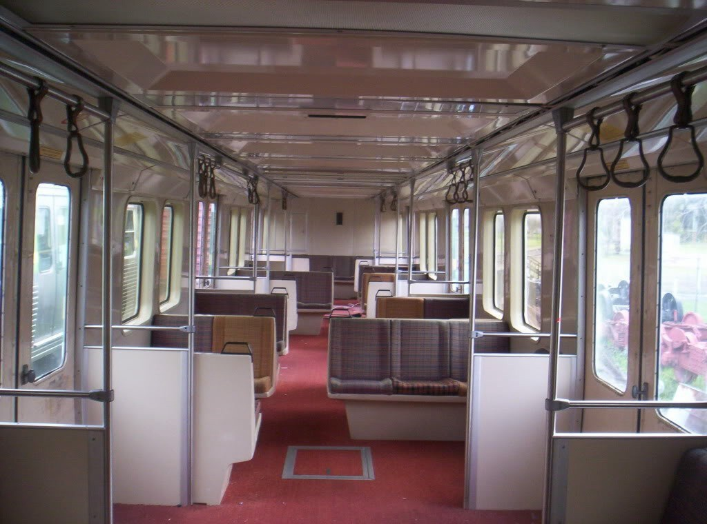 The interior of a Refurbished Harris train.